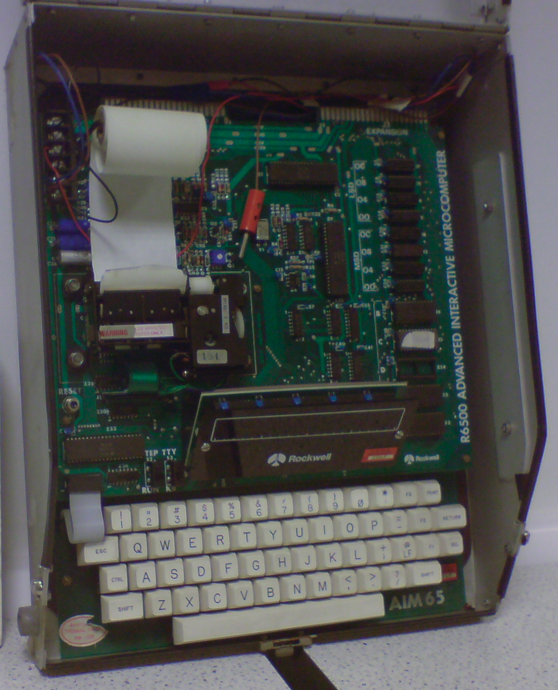 Rockwell AIM 65 computer from about 1976.